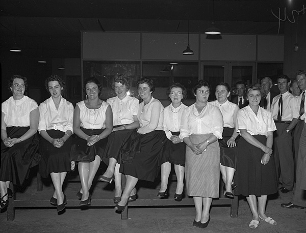 Teitl Cymraeg/Welsh title: Eisteddfod Butlins Pwllheli Ffotograffydd/Photographer: Geoff Charles (1909-2002) Dyddiad/Date: Medi/ September 17, 1959 Cyfrwng/Medium: Negydd ffilm / Film negative Cyfeiriad/Reference: (gch20927) Rhif cofnod / Record no.: 003470378 Rhagor o wybodaeth am gasgliad Geoff Charles yn Llyfrgell Genedlaethol Cymru More information about the Geoff Charles Collection at the National Library of Wales Mae ffotograffau Geoff Charles hefyd yn rhan o Broject Europeana Libraries Geoff Charles' photographs also form part of the Europeana Libraries Project